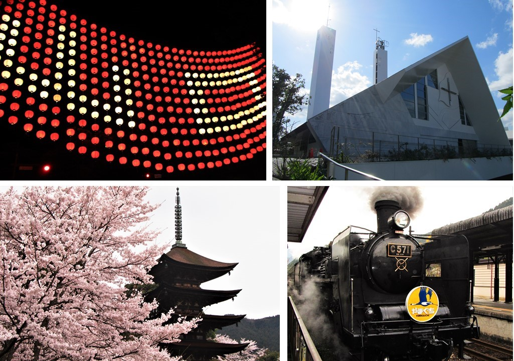 Yamaguchi lantern festival - St.Xavier's Church - Rurikoji temple's pagoda - Steam Locomotive "Yamaguchi"